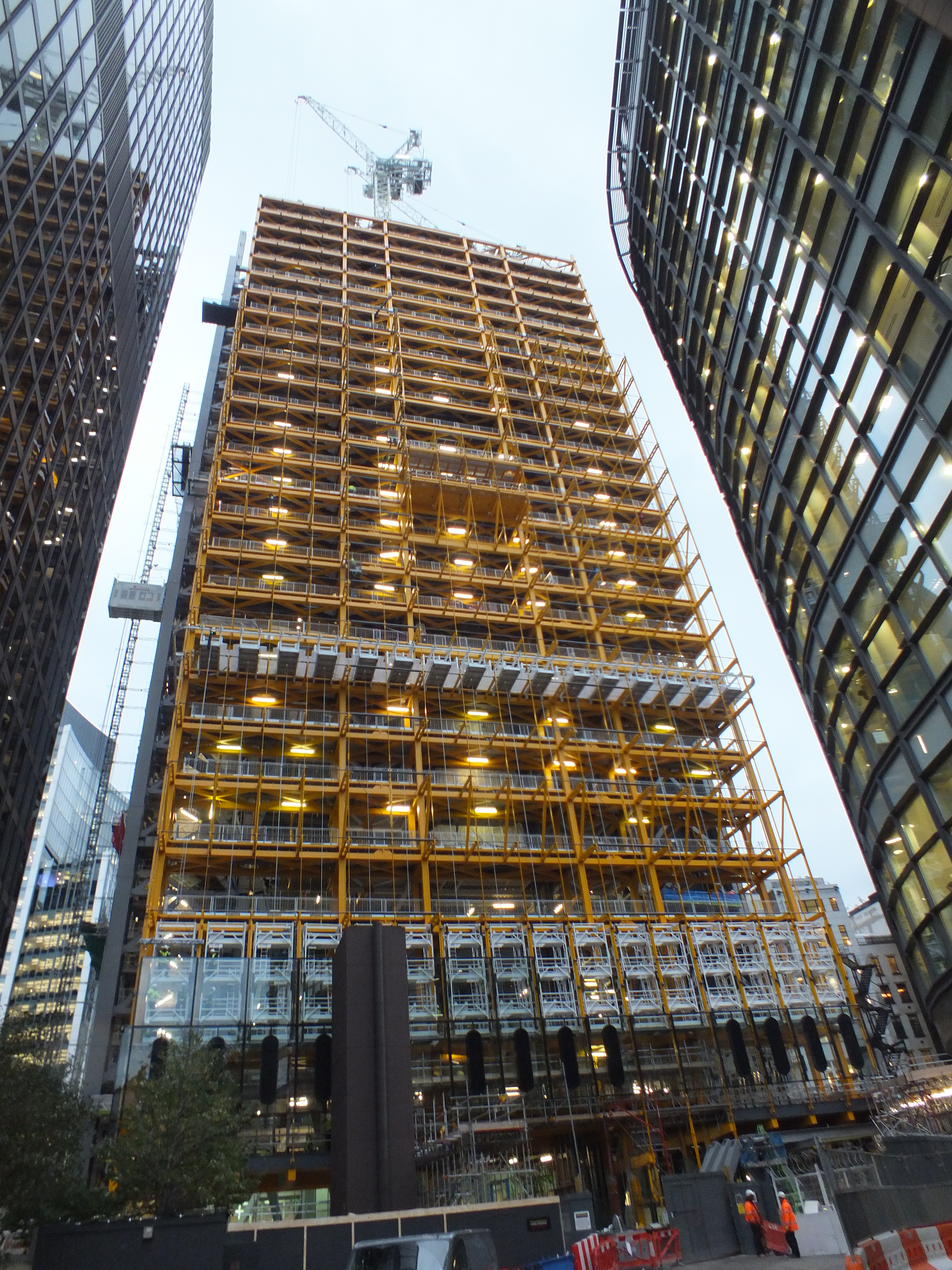 Leadenhall Building construction in 2012 (conflicting dates)